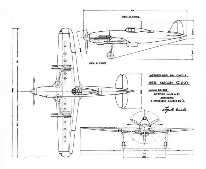 Macchi C.207 three view